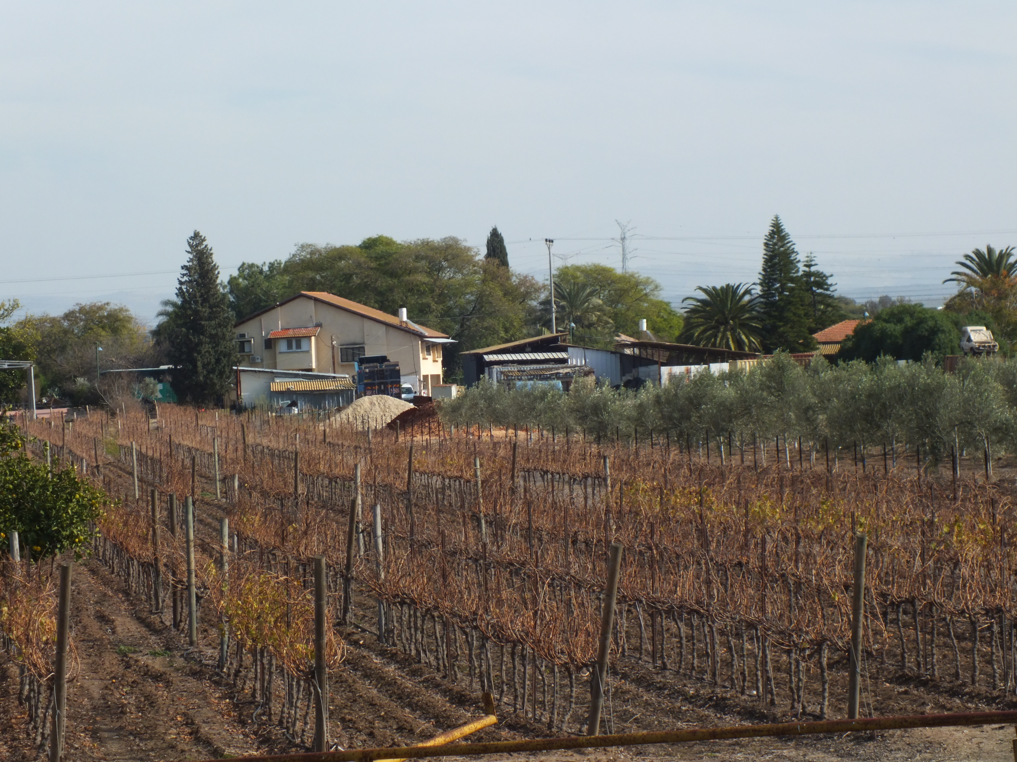 Avigdor is a small moshav in the Shfela (the lowland of south-central Israel).